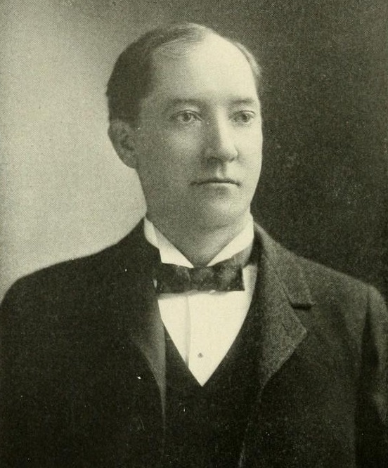 Charles P. Dorr (West Virginia Congressman)